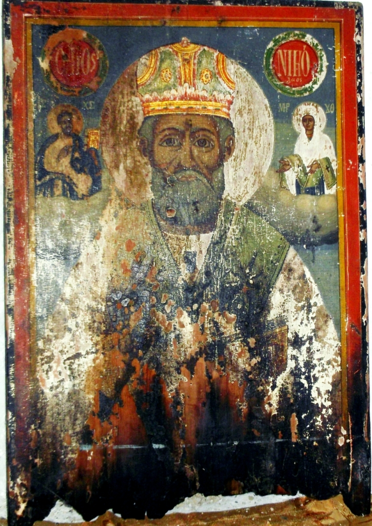 Saint Nicholas Icon from Saint Nicholas Church in Ptelea Grache